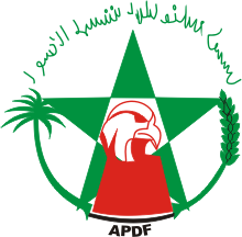 emblem opf AAPDF 2008